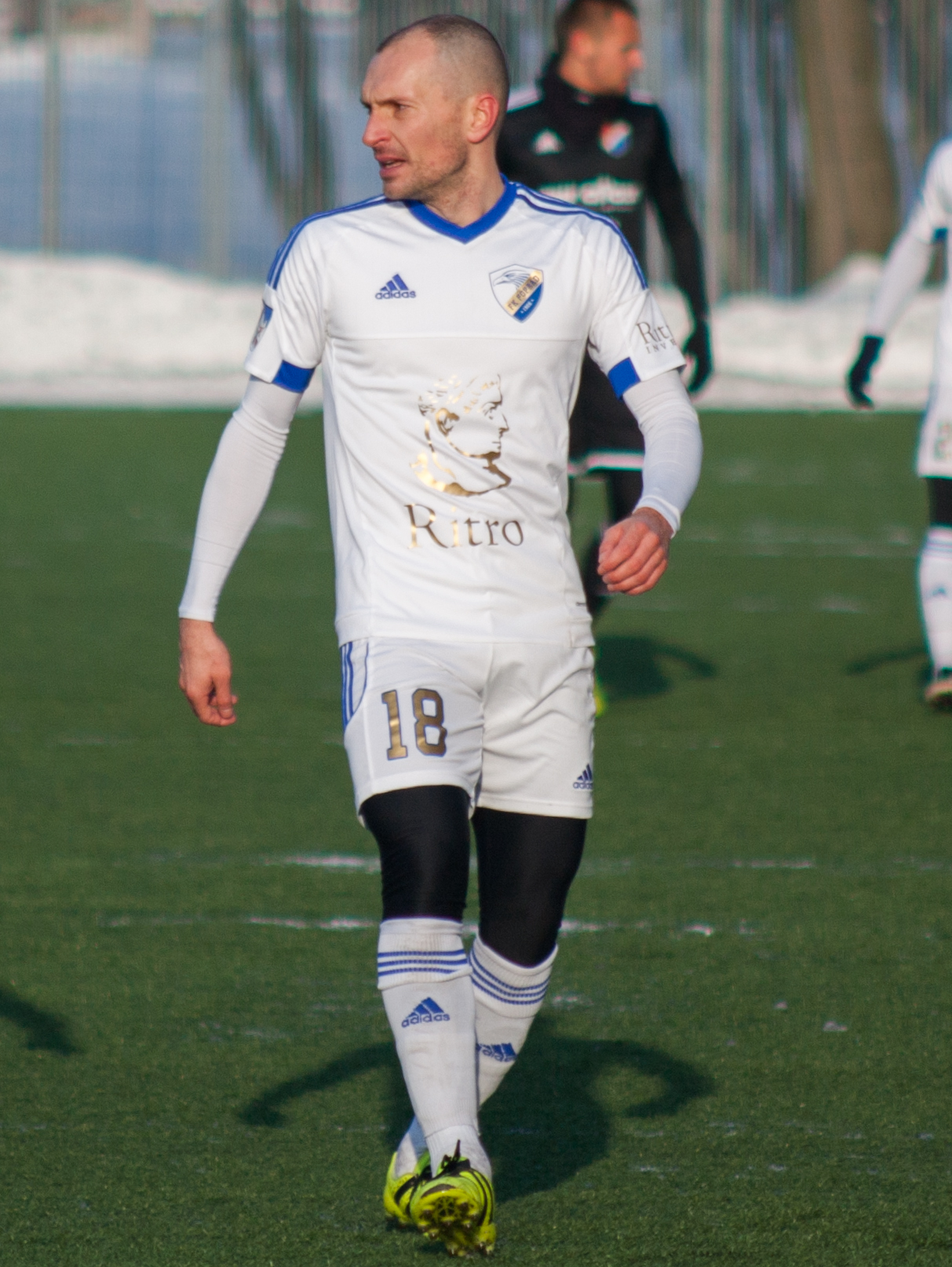 Czech Winter Tipsport League match FC Baník Ostrava-FK Poprad played on 11 January 2019